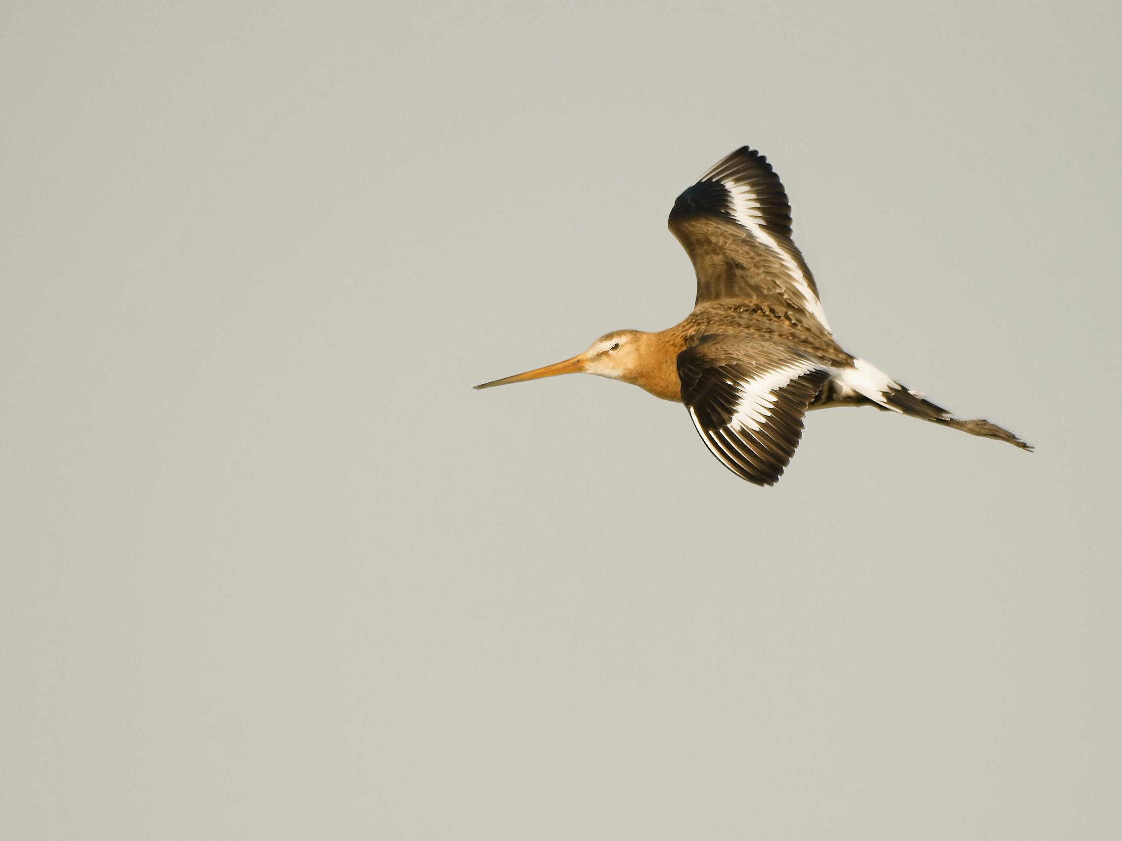 Black-tailed Godwit, Uitkerkse Polders, Belgium